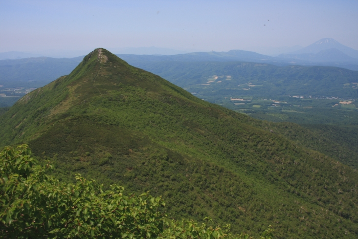 Mount Tokushunbetsu as senn from Mount Horohoro in Hokkaido Japan.